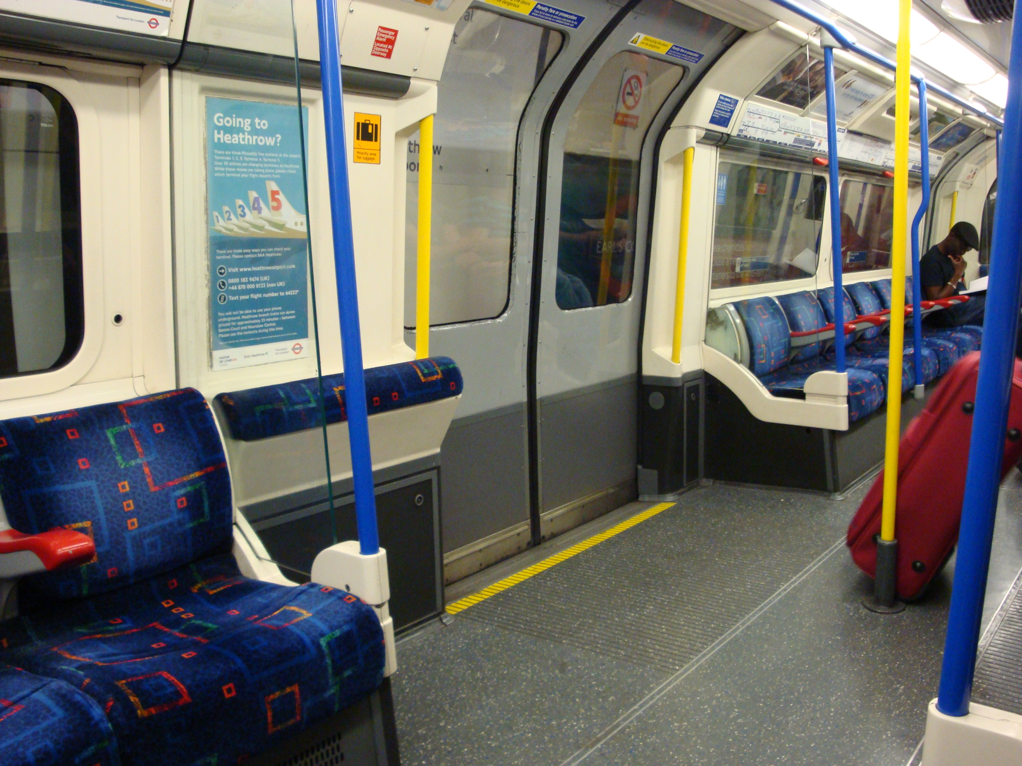 Piccadilly line train in London Underground